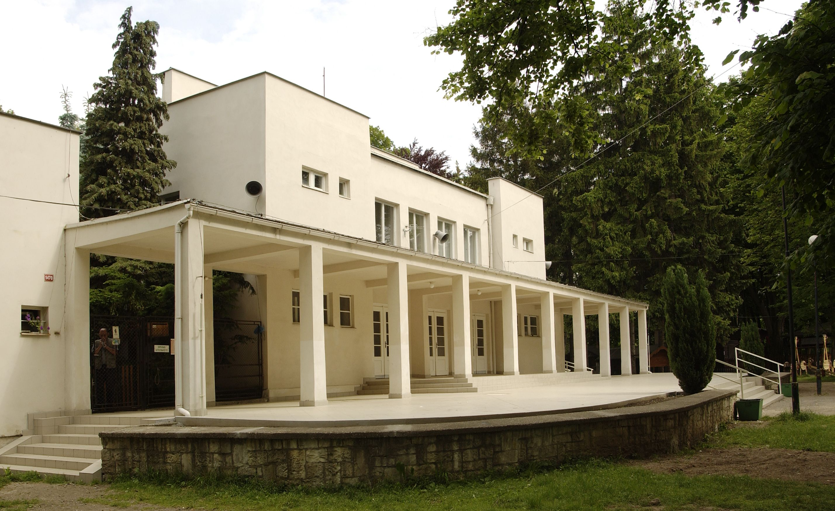 Exhibition Hall in Louny